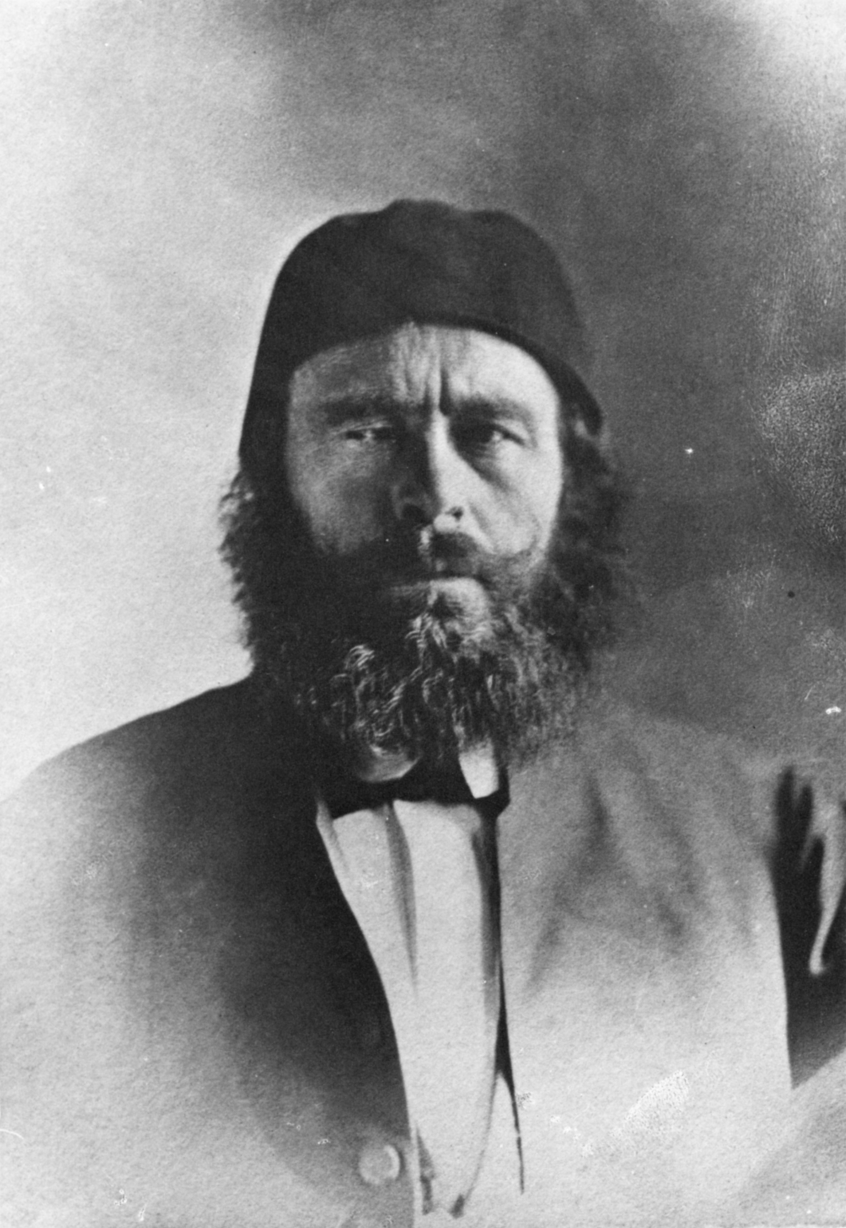 Photograph of Muhammad Sa'id Pasha (1822–1863), wāli (viceroy) of Egypt (1854–1863) and son of Muhammad Ali Pasha.